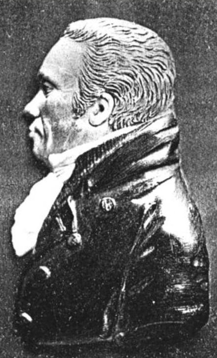 Thomson Joseph Skinner (Massachusetts Congressman)